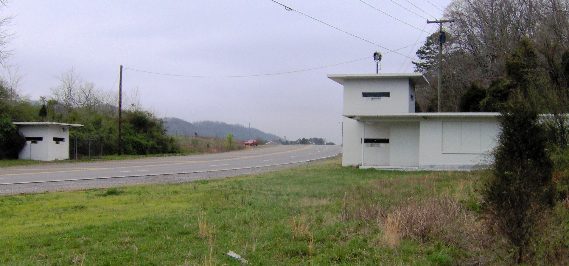 Checking station on Bethel Valley Road in Oak Ridge, Tennessee, in the southeastern United States.